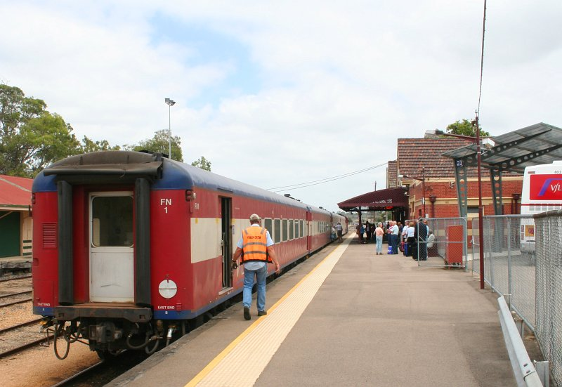 Barirnsdale station, Victoria, Australia. January 2007